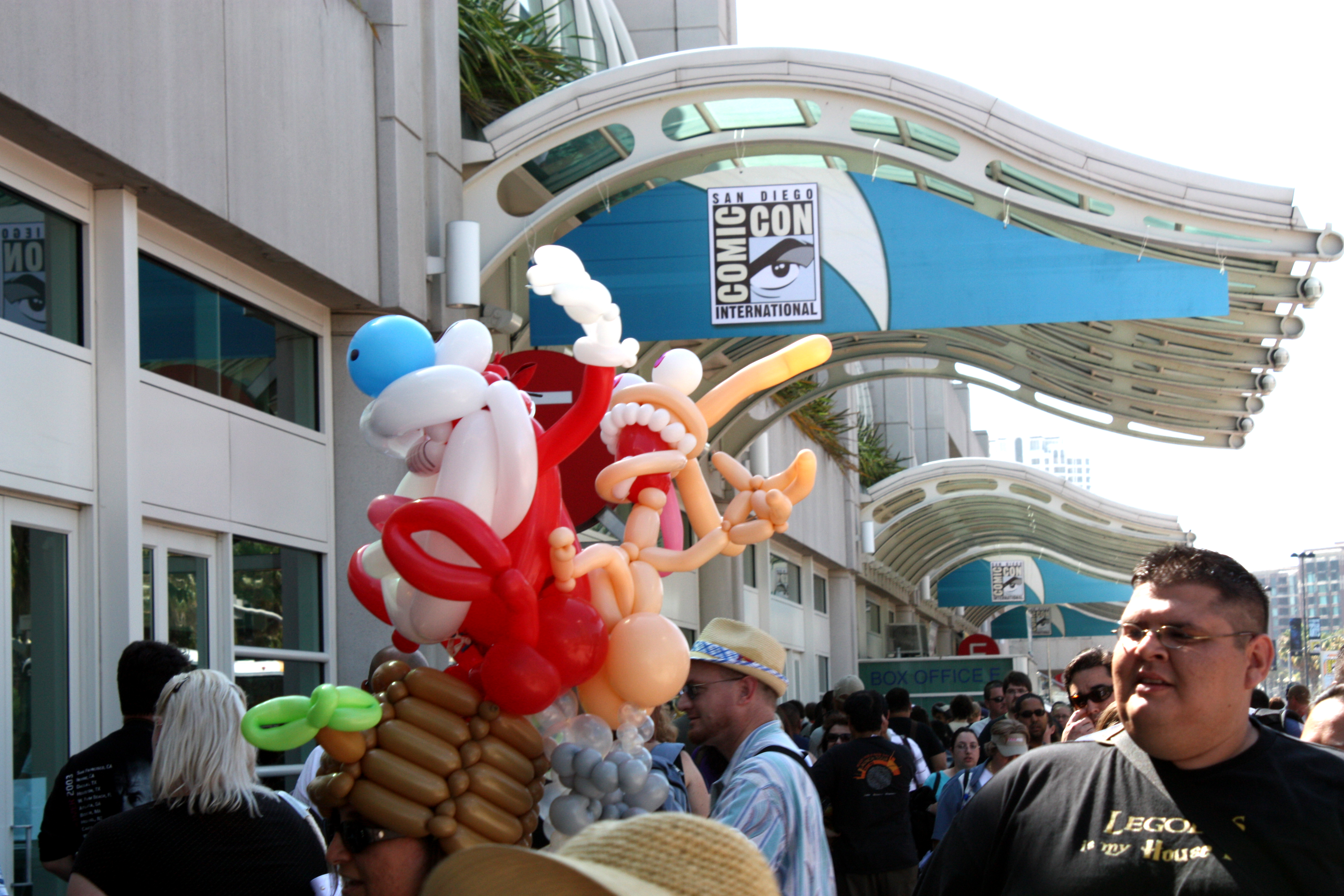 A very interesting balloon hat made to resemble Ren & Stimpy worn by an attendee at Comic Con 2009. Very impressive.